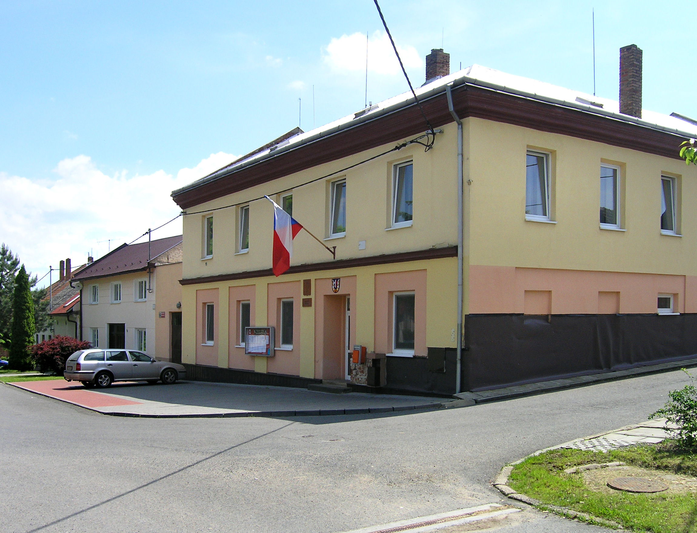 Municipal office in Troubky, part of Troubky-Zdislavice village, Czech Republic